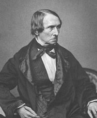 Peter-von-cornelius